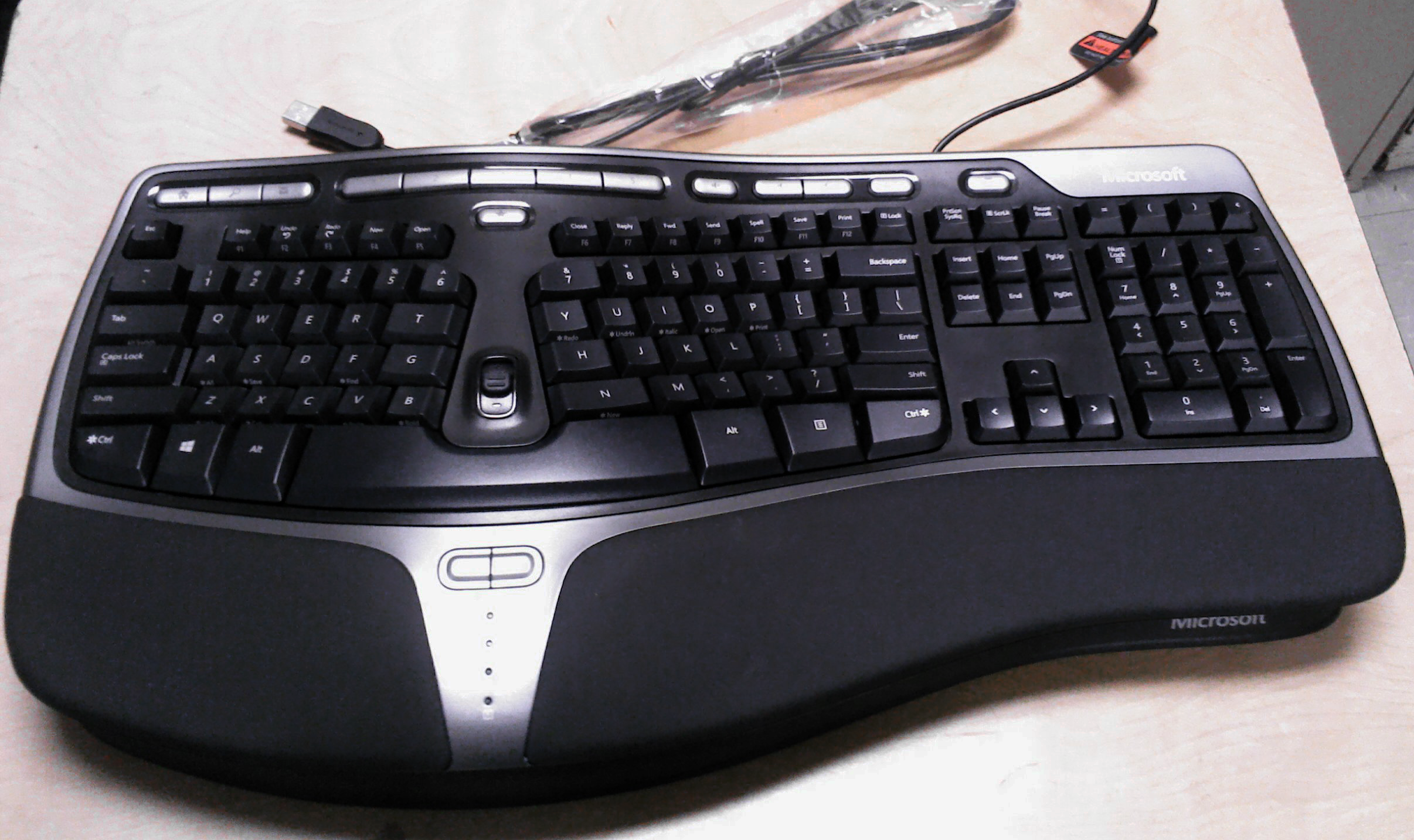 Microsoft Natural Ergonomic Keyboard 4000. This item was packaged for Business, rather than Retail.